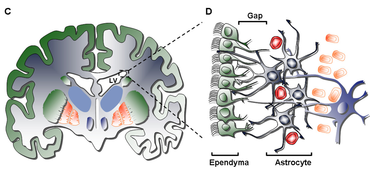 The anatomy of the neurogenic subventricular zone in the adult rodent and human brain. (A) Sagittal view of a rodent brain showing the sites of neurogenesis in the subventricular zone/olfactory bulb (SVZ/OB) system. (B) Schematic drawing of the composition and cytoarchitecture of the adult rodent SVZ. (C) Coronal view of the adult human brain showing the basal ganglia and lateral ventricles. (D) Schematic drawing depicting the cellular composition and cytoarchitecture of the adult human SVZ, consisting of four layers: Layer I – ependymal cell layer (green), Layer II – hypocellular gap, Layer III – astrocytic ribbon, containing astrocytes and migrating neuroblasts, Layer IV – transitional zone, containing oligodendrocytes and separating the SVZ from the striatum rich in neurons. RMS: rostral migratory stream; DG: dentate gyrus; LV: lateral ventricle. Arias-Carrión International Archives of Medicine 2008 1:2